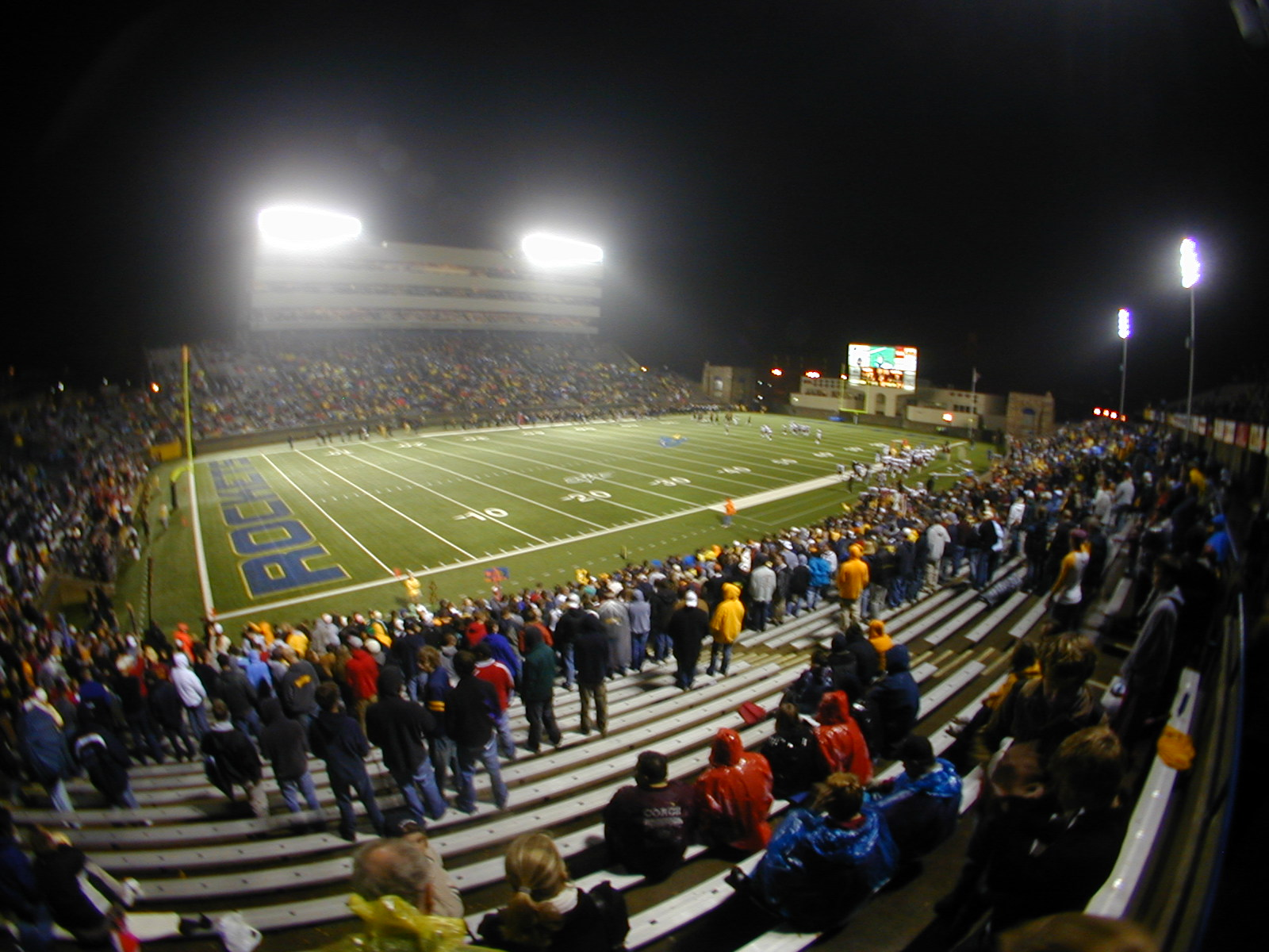 The University of Toledo, Glass Bowl Stadium. Facing north-west. Date: 10/20/2004